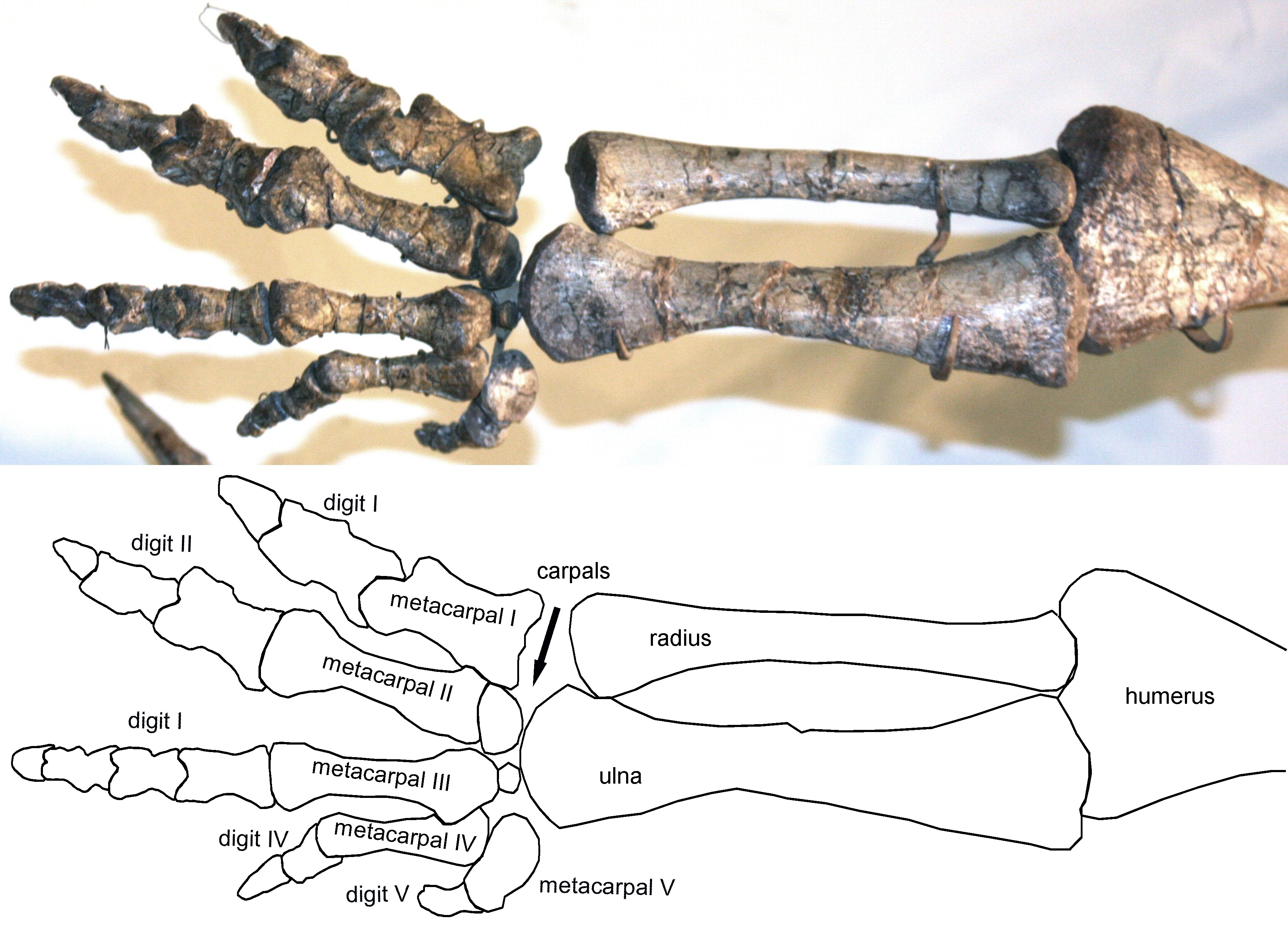 Left lower arm and hand of Plateosaurus engelhardti IFGT "Skelett 2" from Trossingen, Germany on exhibit at the museum of the Institute for Geosciences of the Eberhard-Karls-University Tübingen, Germany. Mount created under the direction of Friedrich von Huene.